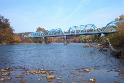 View across the Kiskiminetas River, looking down stream. Clinton N. Godlesky. From personal collection.